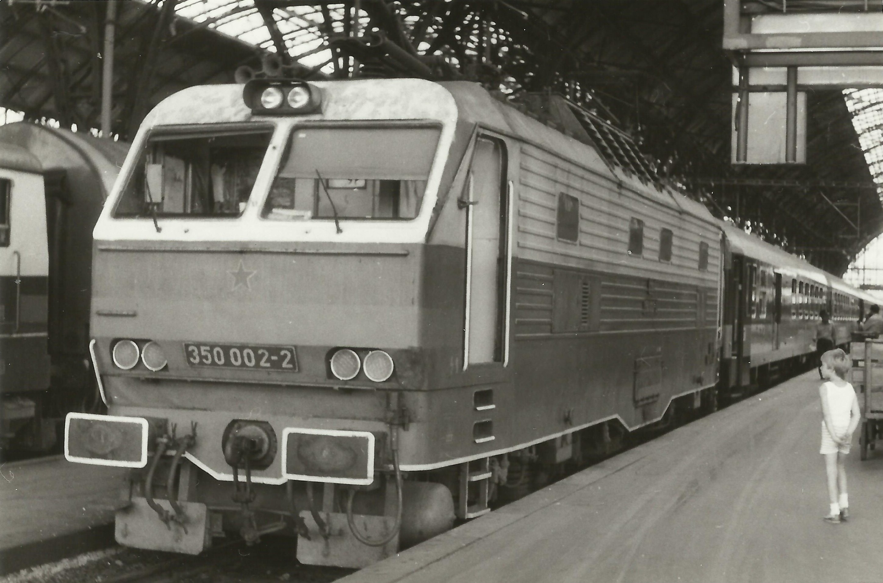 350 002-2, Praha hl. nádr. 5.8. 1989, Ex 172 Slovenská strela (Czechoslovakia).